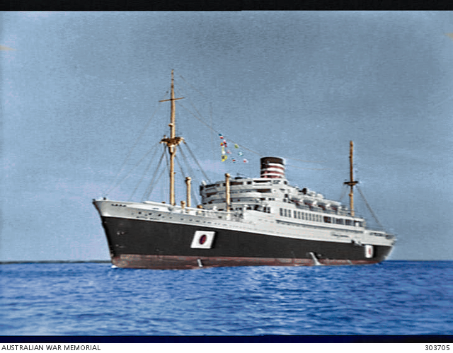 Nitta Maru underway pre-ww2 as a passenger liner.